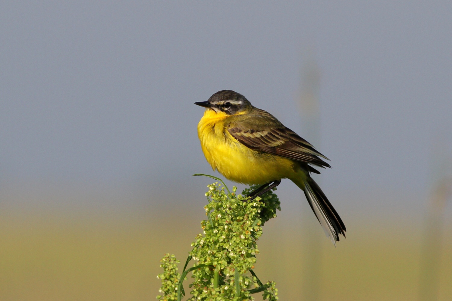 Nagyiván, Hortobágy, Hungary